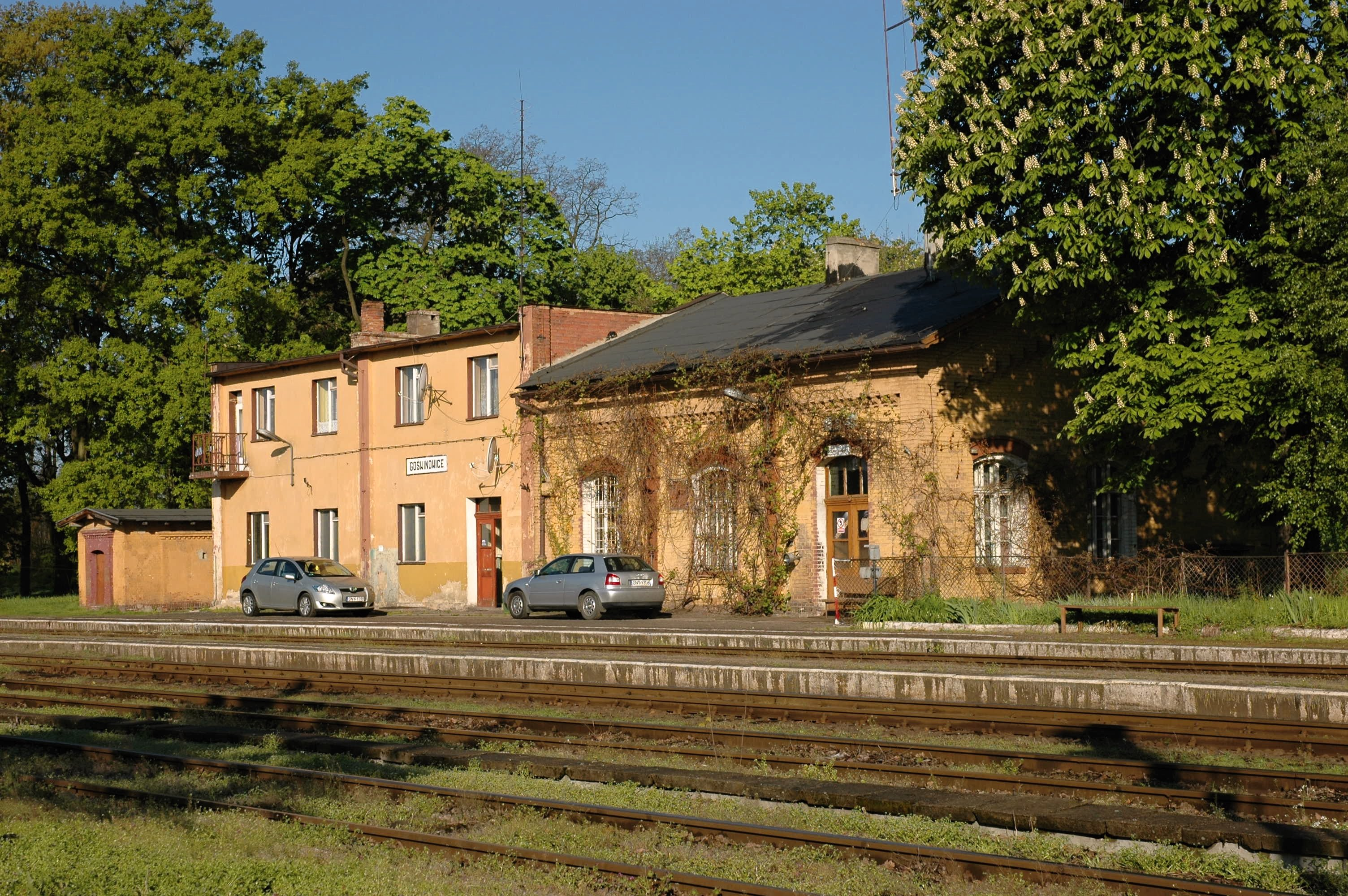 Goświnowice railway station, Poland